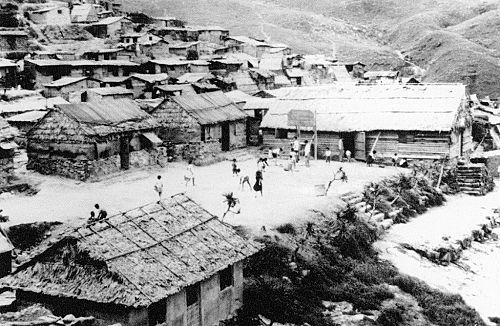 The photograph shows children playing on a makeshift basket-ball court in a squatter area on the hillside at Tui Keng Leng, or Rennie's Mill, the site of the long-gone flour mill, on the west shore of Junk Bay. 中文（香港）: 1952年的調景嶺，可見到當時的香港難民義務學校和學校籃球場。